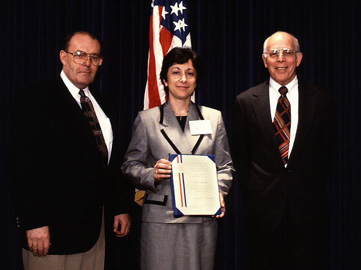 Dr. John H. Gibbons, Assistant to the President for Science and Technology (right), at a White House ceremony to present the first annual Presidential Early Career Awards for Scientists and Engineers (PECASE). With awardee Pina M. Fratamico of Elkins Park, Pa. (center), a microbiologist with the U.S. Department of Agriculture, and Dr. Floyd Horn (left), U.S. Department of Agriculture Acting Deputy Under Secretary for Research, Education, and Economics.